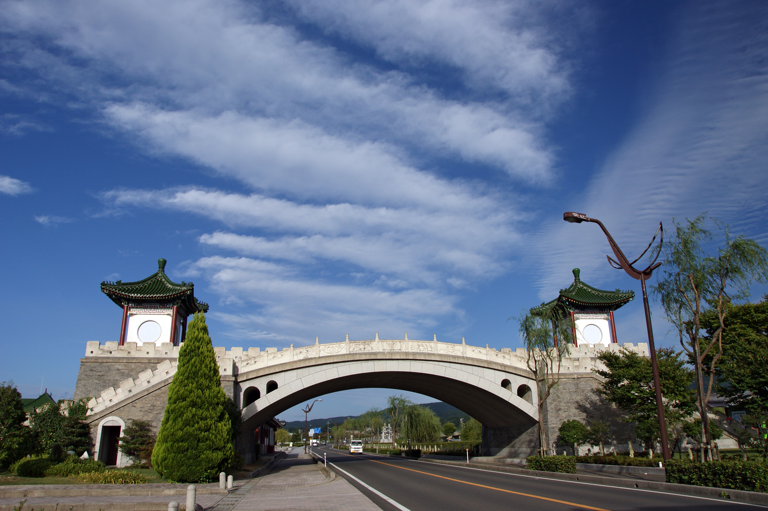 Enchoen in Yurihama, Tottori prefecture, Japan